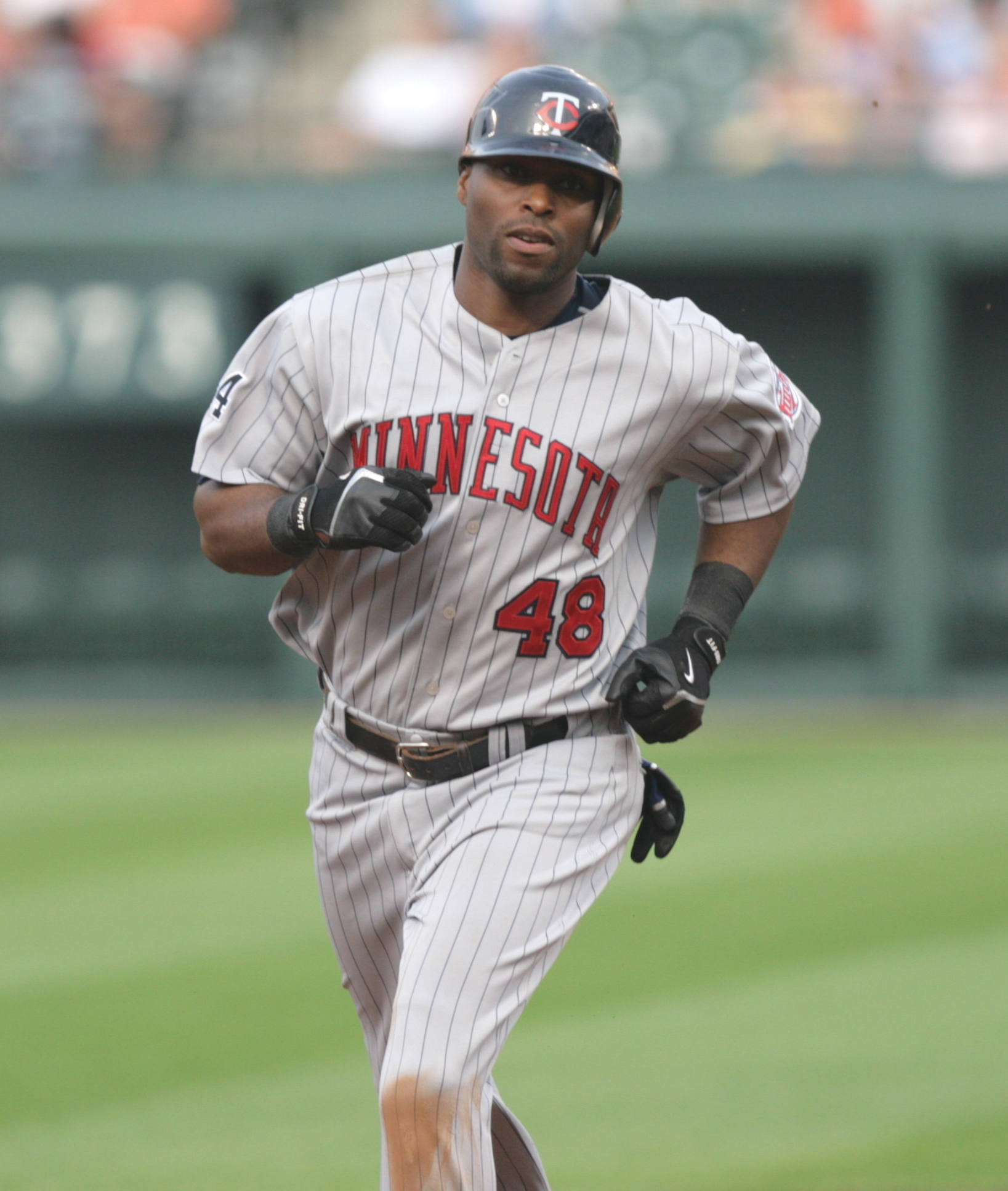 Minnesota Twins outfielder Torii Hunter running the bases.